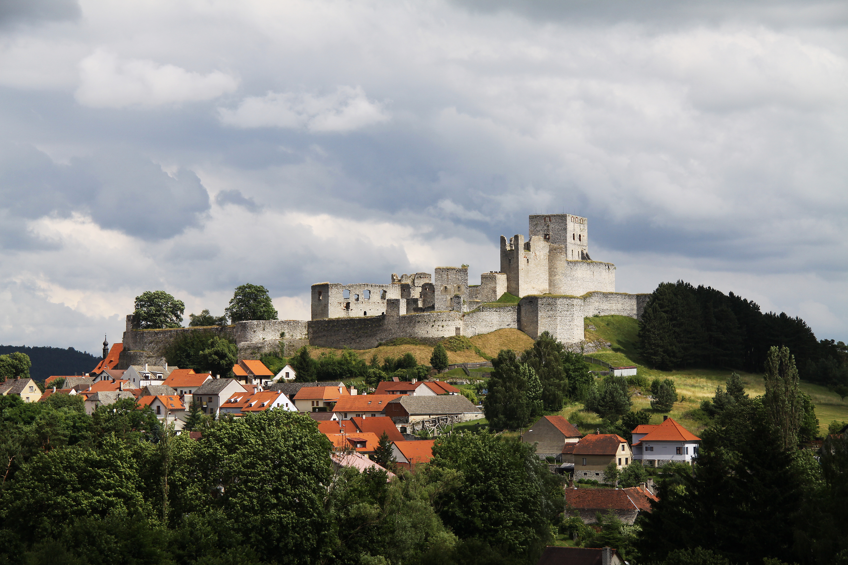 View of the Rabí castle and Rabí village in Klatovy District, Czech Republic